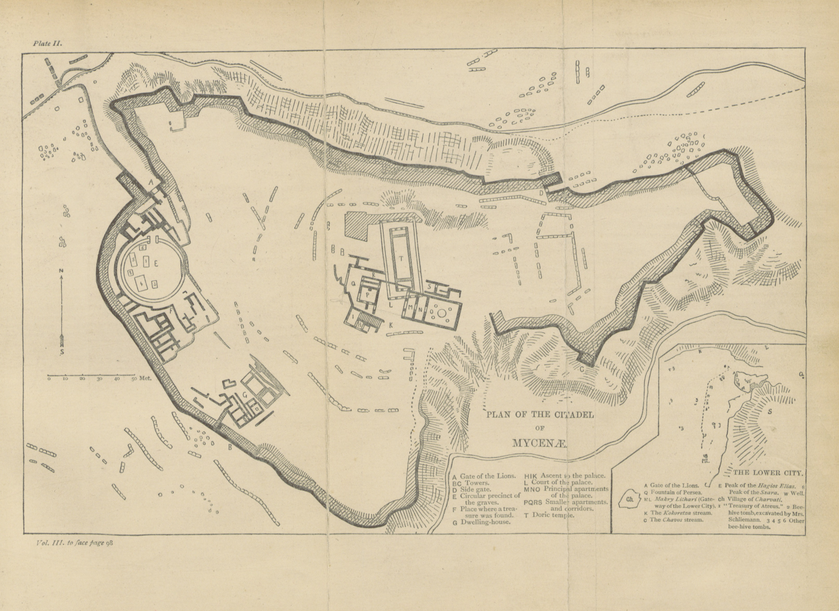 View this map on the BL Georeferencer service. Image taken from: Title: "Pausanias's Description of Greece. Translated with a commentary by J. G.Frazer" Contributor: Frazer, James George - Sir Shelfmark: "British Library HMNTS 010127.b.36." Volume: 03 Page: 117 Place of Publishing: London Date of Publishing: 1898 Publisher: Macmillan & Co. Issuance: monographic Identifier: 002798431 Explore: Find this item in the British Library catalogue, 'Explore'. Open the page in the British Library's itemViewer (page image 117) Download the PDF for this book Image found on book scan 117 (NB not a pagenumber)Download the OCR-derived text for this volume: (plain text) or (json) Click here to see all the illustrations in this book and click here to browse other illustrations published in books in the same year. Order a higher quality version from here.